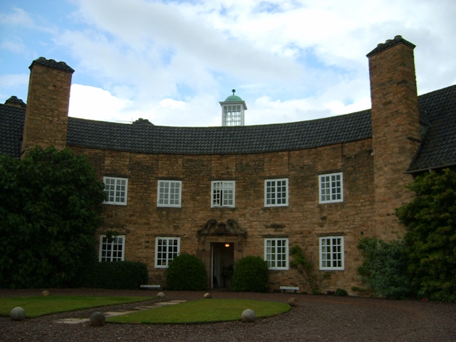 Greywalls Hotel